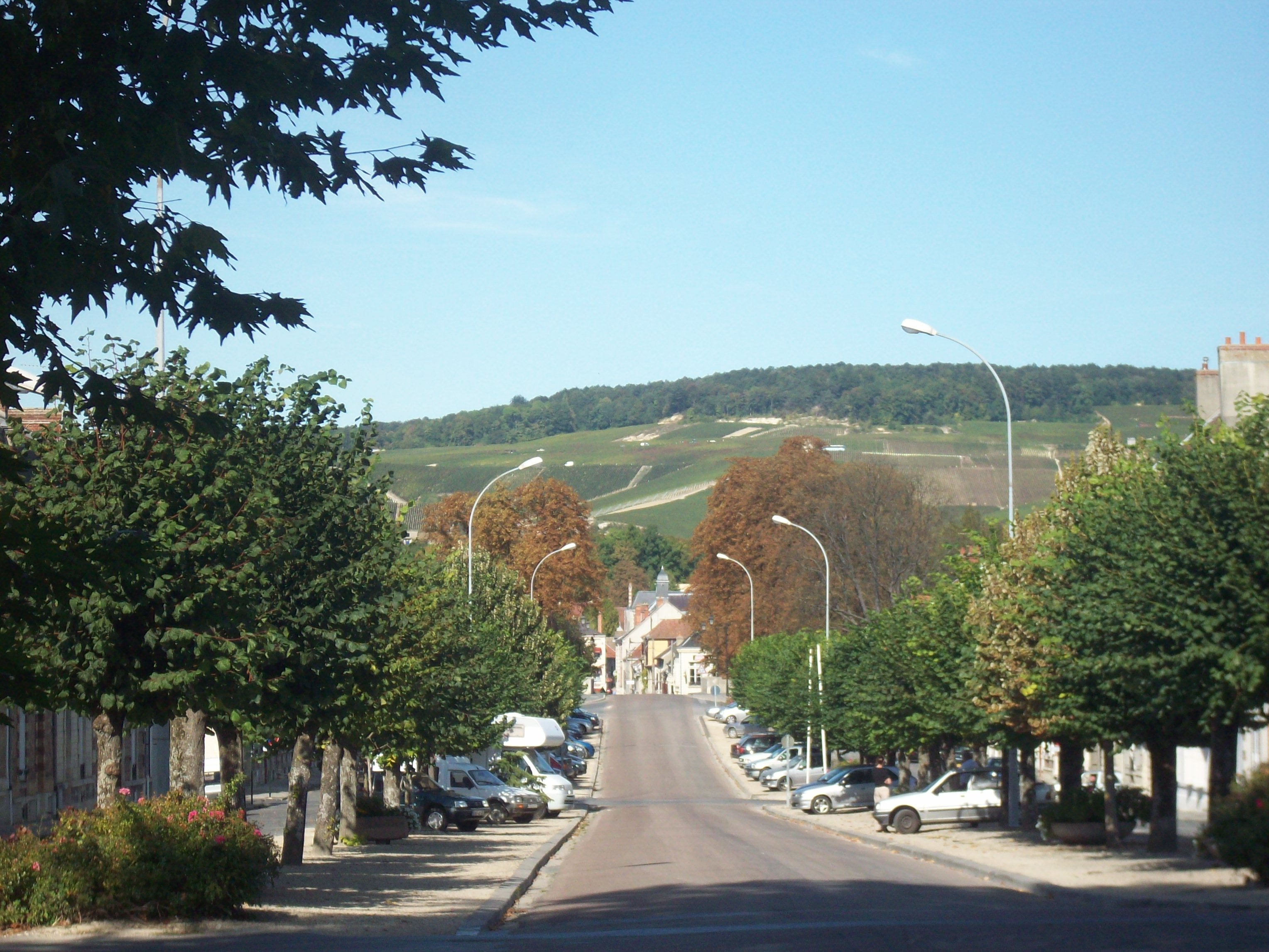 Victor Hugo avenue in Aÿ